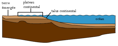 Continental shelf